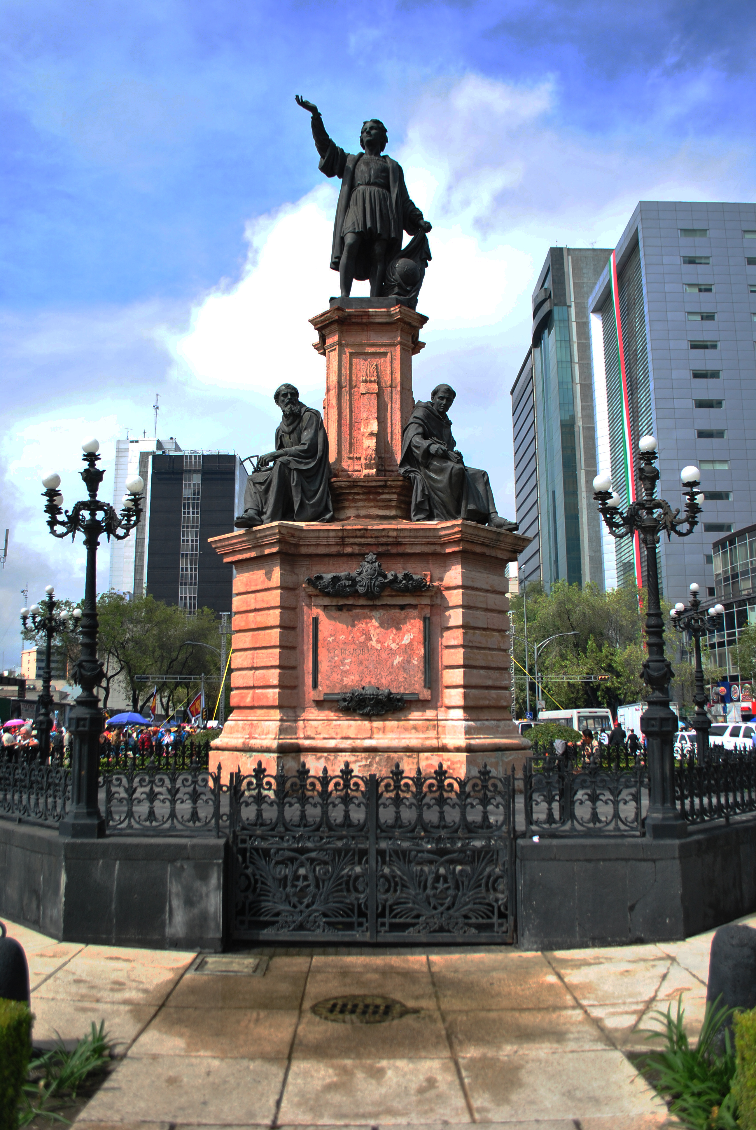 The Monument to Christopher Columbus in the City of Mexico; located in the square formed at the intersection of Paseo de la Reforma and Avenida Morelos. Not to be confused with the one located at the intersection of streets Buenavista and Héroes Ferrocarrileros.